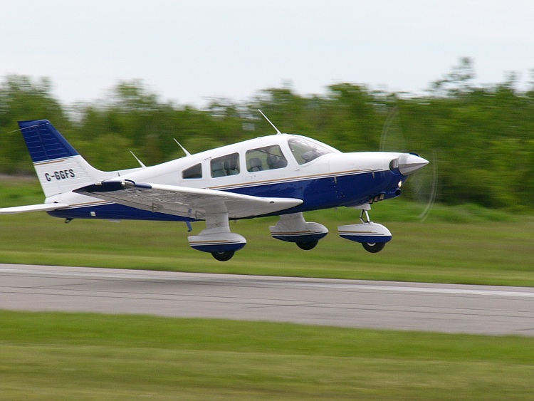 I took this photo of a PA-28-236